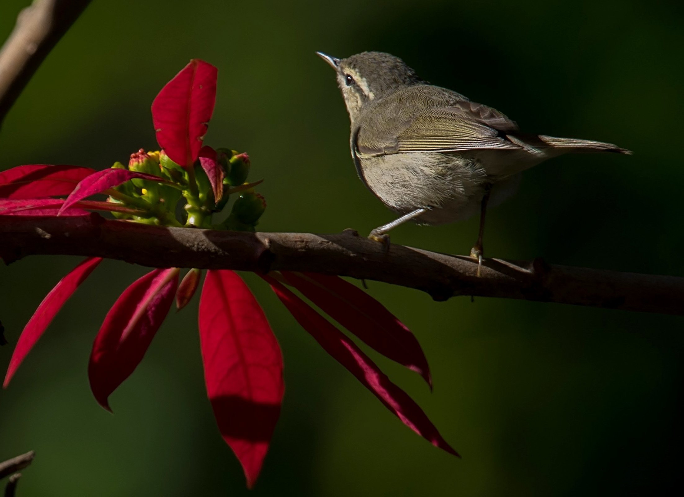 Found at Nandi Hills, Karnataka